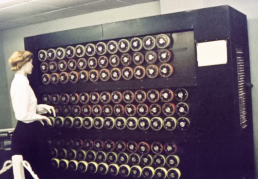 Author: Sarah Hartwell. Mockup of a bombe machine at Bletchley Park. Photographed & uploaded by self. (Copied from 'Bombe.jpg' to 'TuringBombeBletchleyPark.jpg' by OS as it was the aim of vandalism under its original name)